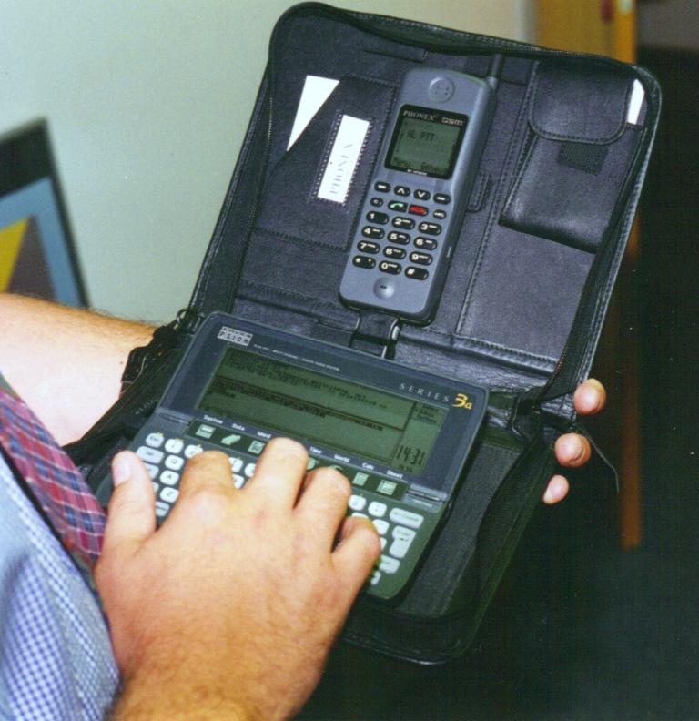 Psion series 3a with Phonex GSM connected to show Mobimail aplication